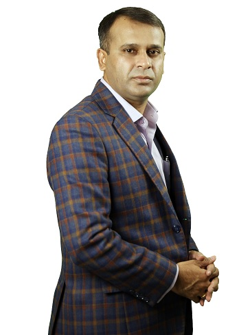 Ravindra Gautam (journalist)